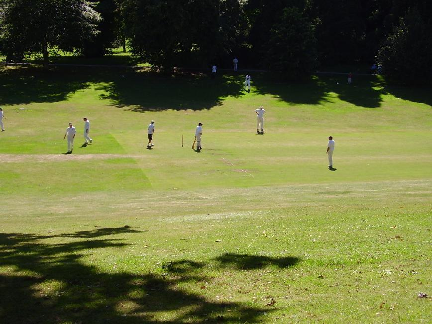 The cricket green in Cockington.